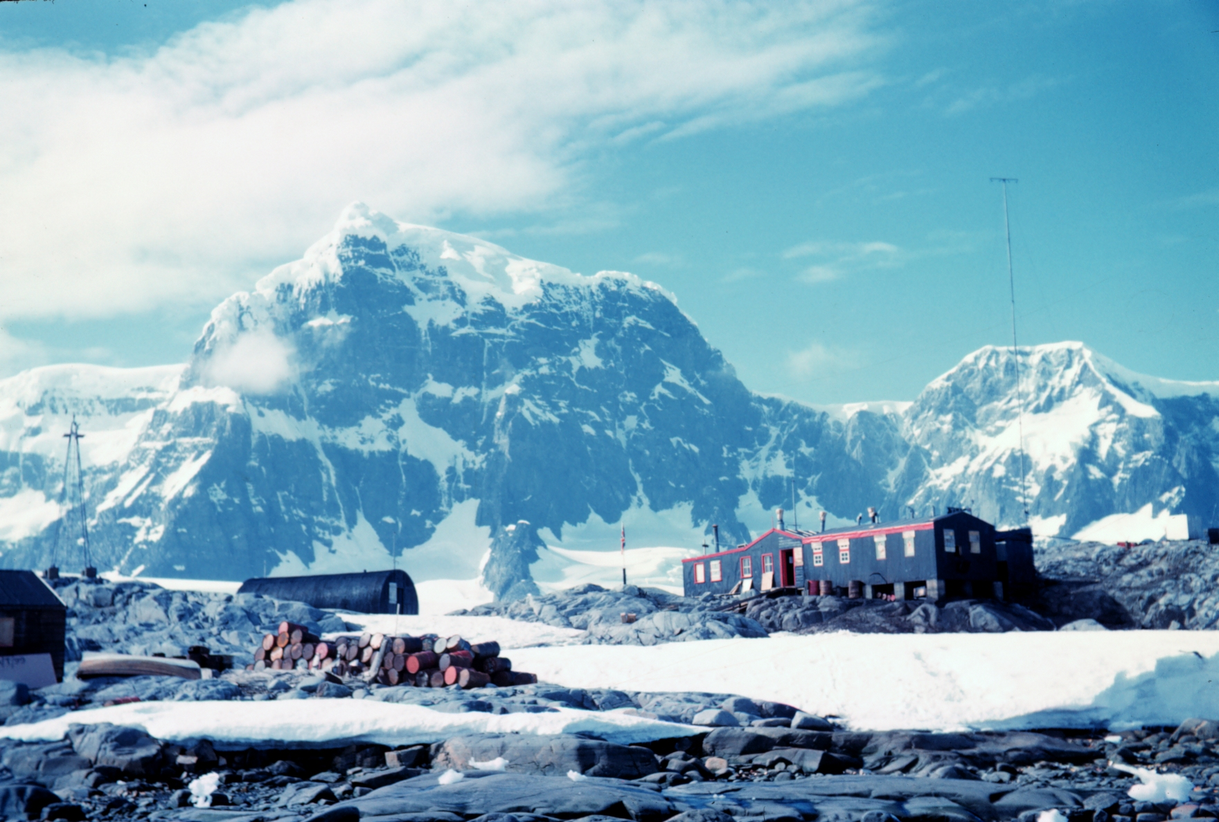 The abandoned british base at Port Lockroy, Antarctic Peninsula. Background: Luigi Peak, 1435m